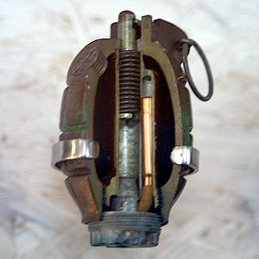 Educational grenade. Cutaway of a Mills N°36 Mk I grenade.